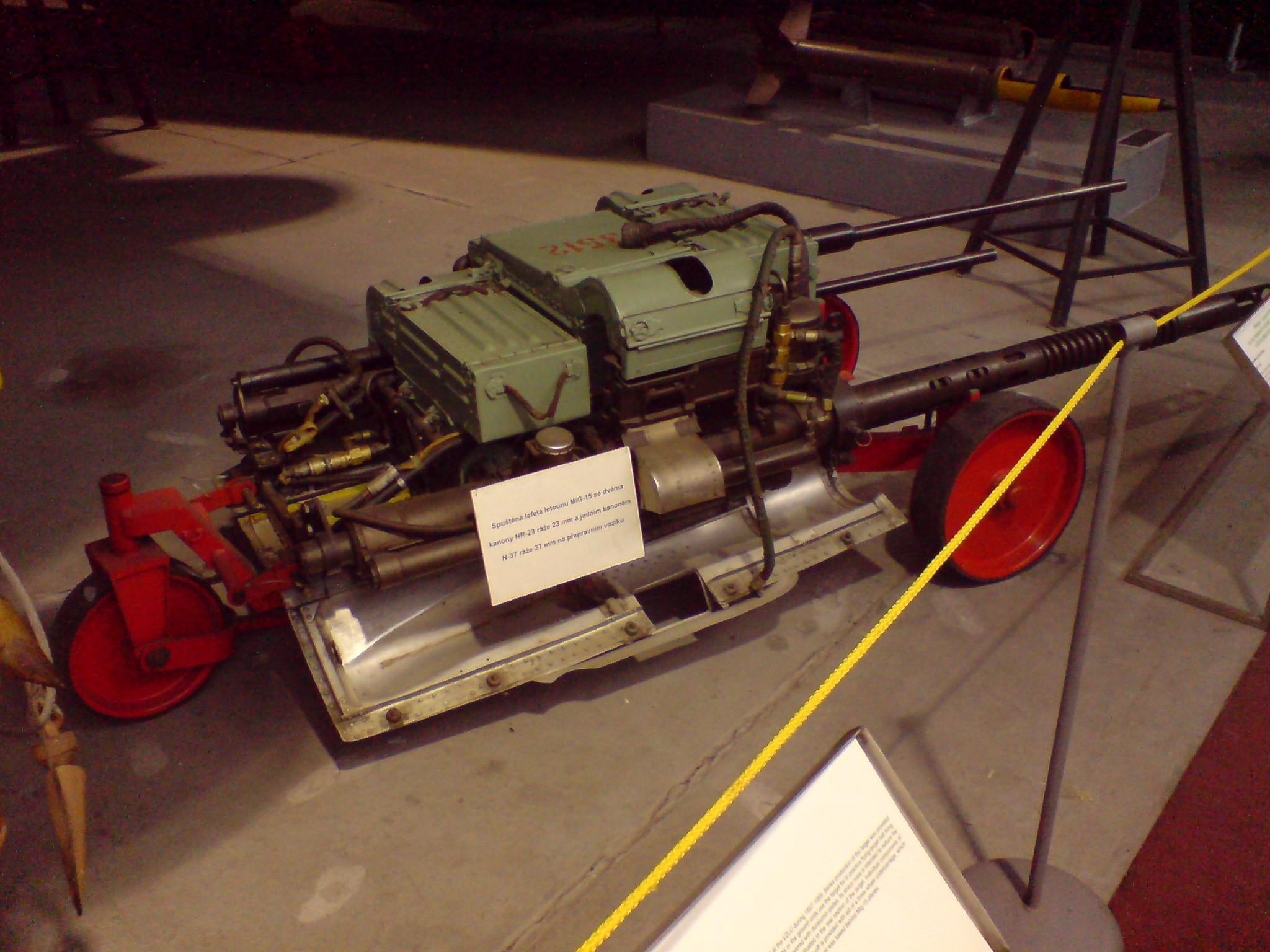 "Outtaken carriage aeroplane MiG- 15 with two cannons NR- 23 calibre 23mm and one cannon N- 37 calibre 37mm on trucking trolley" (Prague Aviation Museum, Kbely)